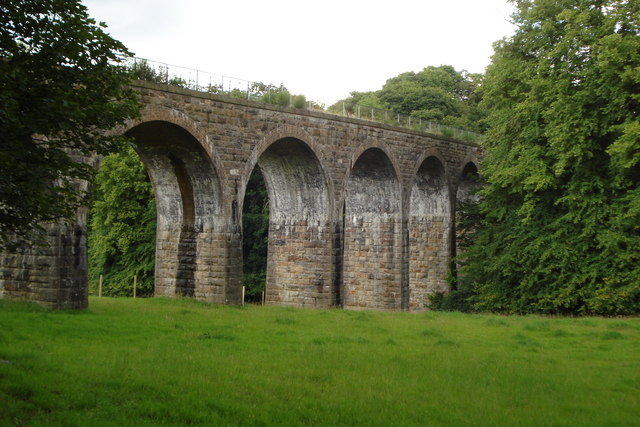 Firth viaduct near Auchendinny This 10 arch viaduct carried the Penicuik Branch of the North British Railway until the line closed in 1967. The viaduct is 66 feet high and each arch spans 35 feet. the viaduct now carries the Penicuik-Dalkeith walkway.